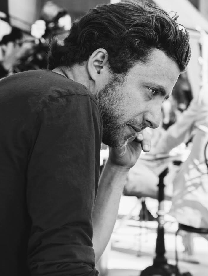 Italian director and photographer Francesco Carrozzini